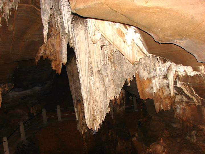 Inner view of Dandak Cave of Chhattisgarh